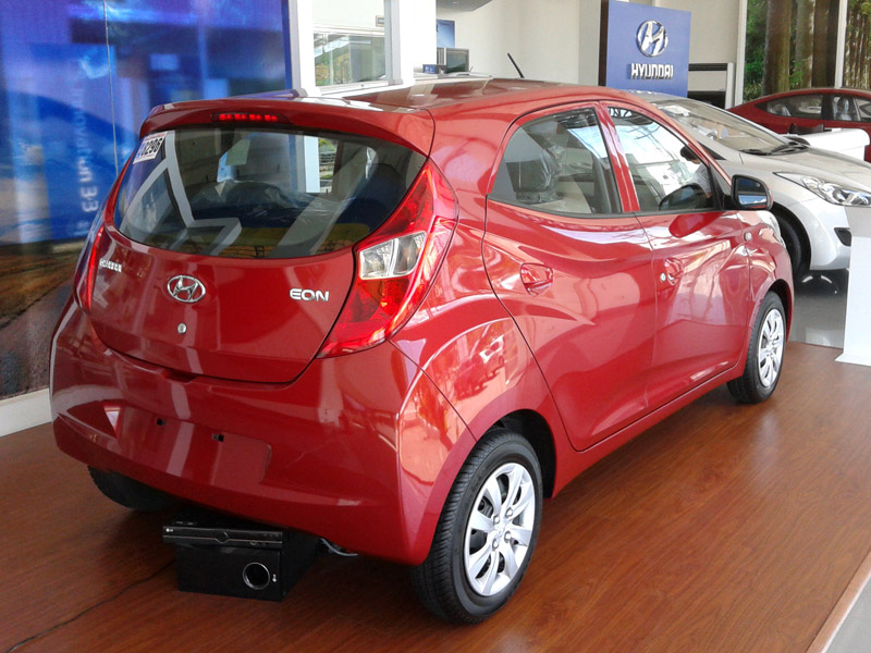 2012 Hyundai Eon (Philippine model)